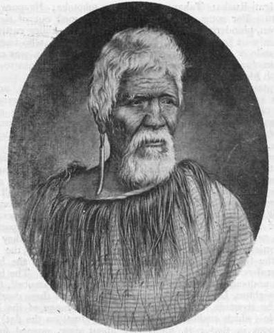 Topine te Mamaku, principal chief of the Ngati-Haua-te-Rangi tribe of the Upper Wanganui area, New Zealand.